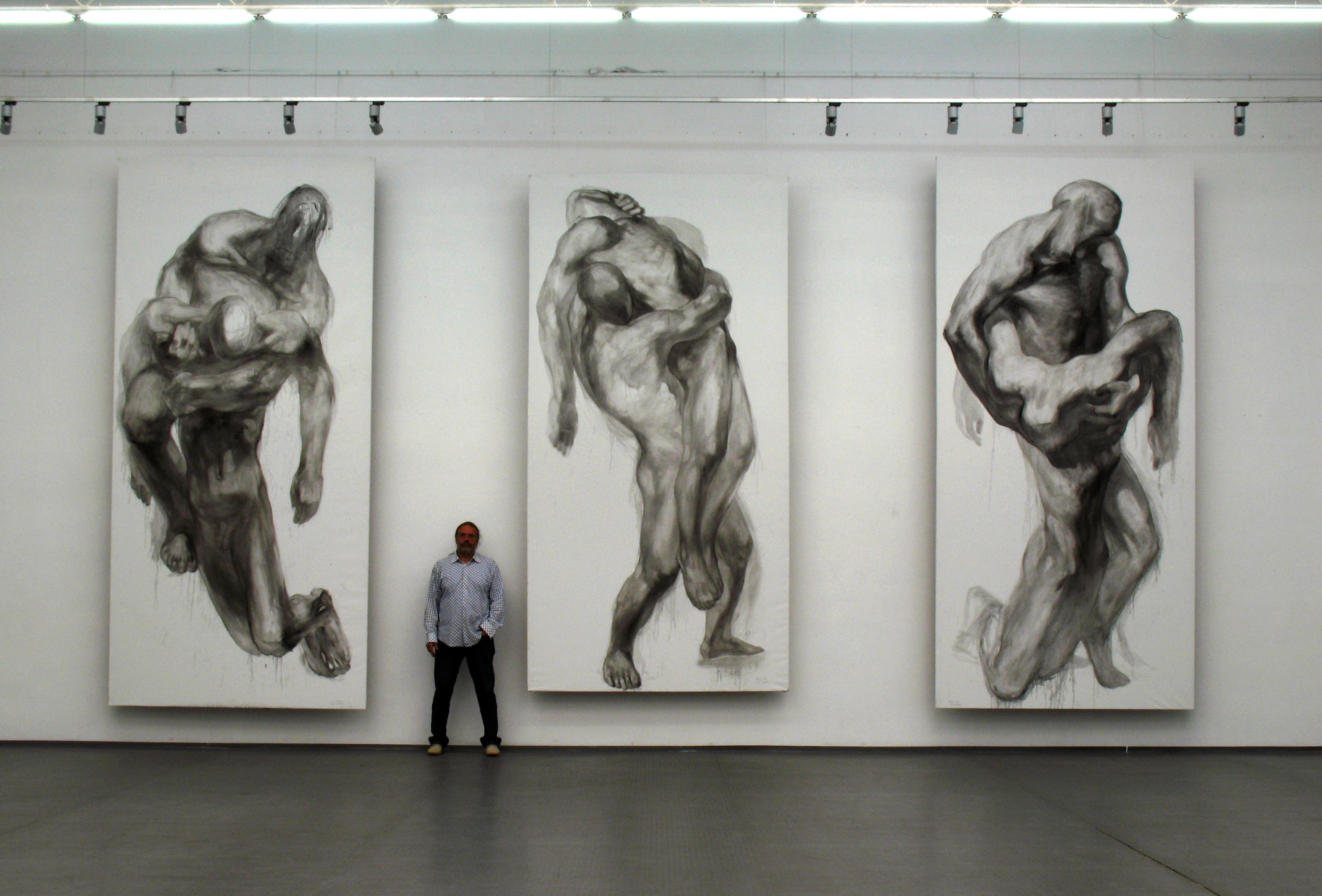 поглед към изложбата "О, щастливи дни", 2014, Галерия "Райко Алексиев", София